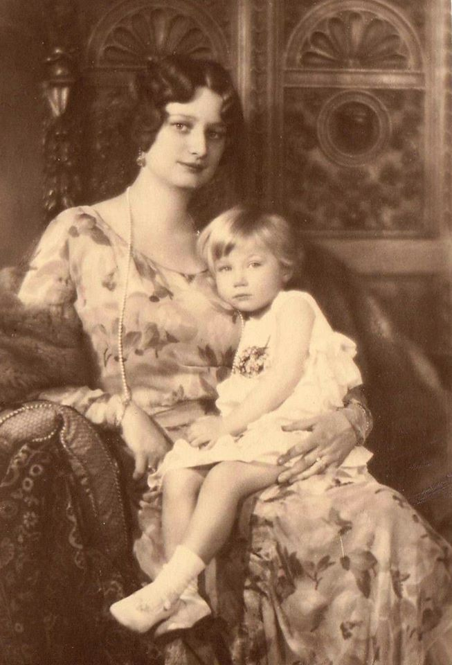 Queen Astrid of the Belgians with her daughter Joséphine-Charlotte (later Grand Duchess of Luxembourg)